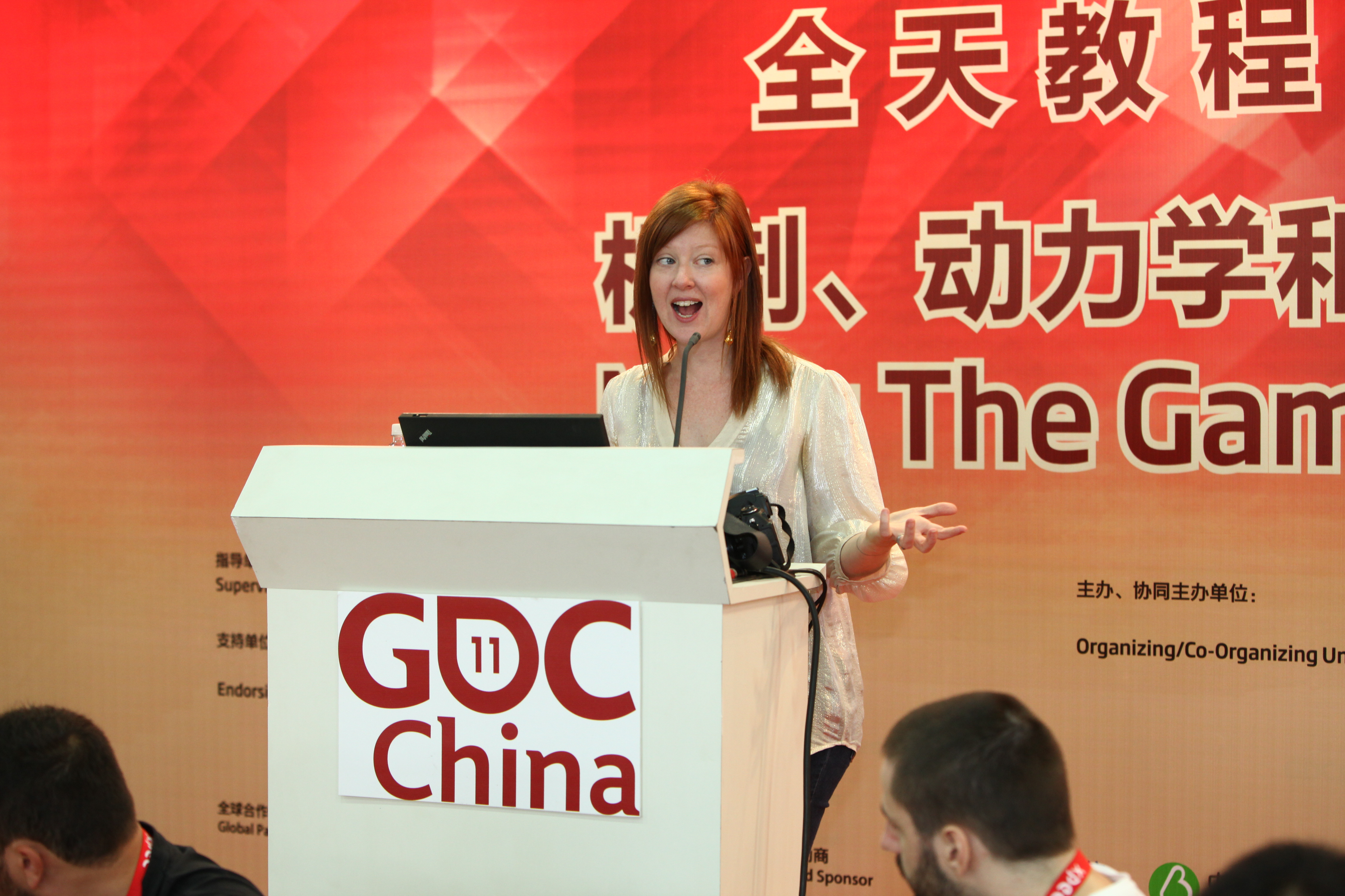 Robin Hunicke during his keynote at GDC China 2011.